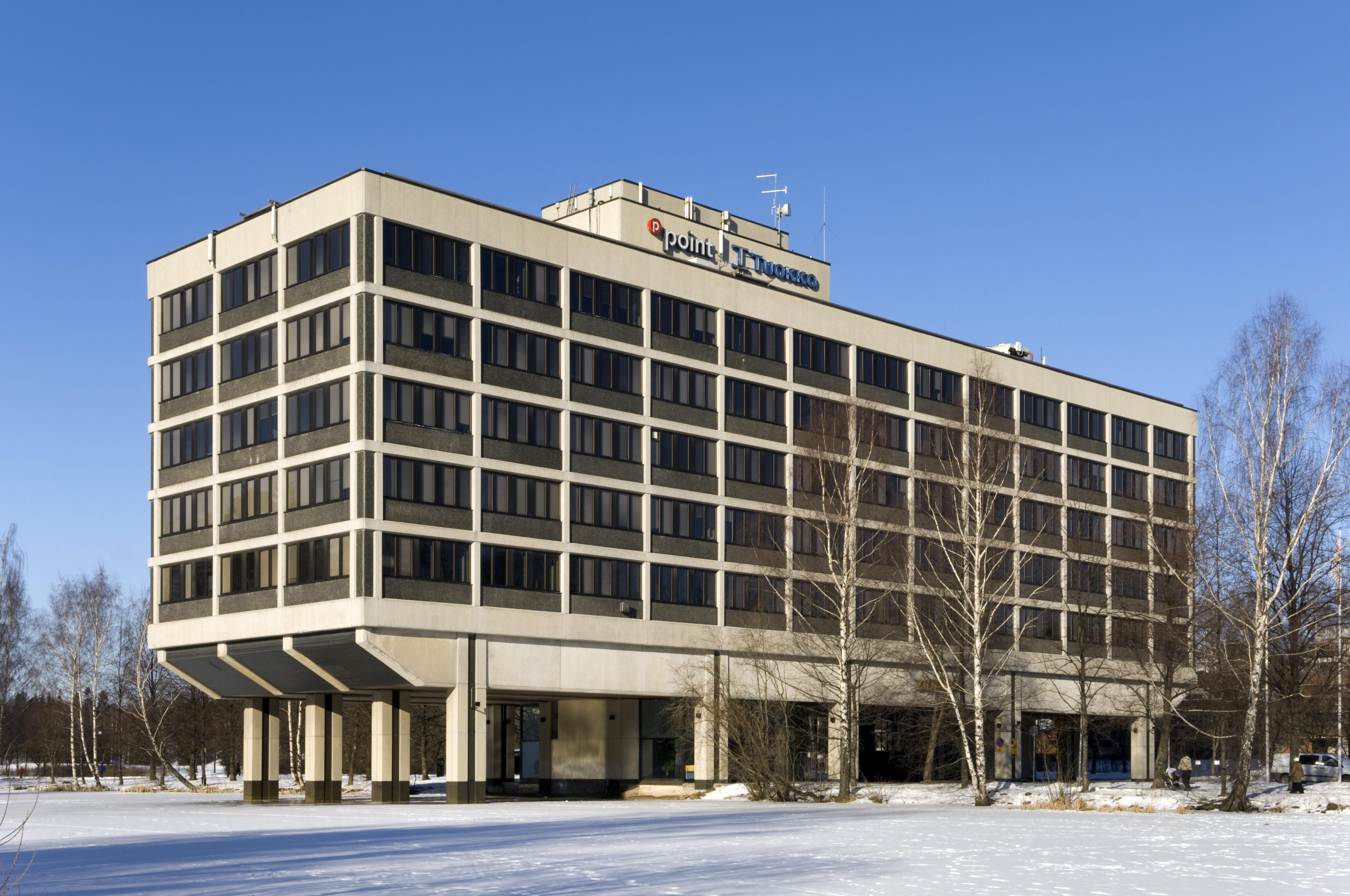 The headquarters of Point Transaction Systems Oy and Tuokko Auditing Ltd in Munkkiniemi, Helsinki, Finland. Aditro Customer Services does also business in the same building. KONE Corporation offices were in the building for years until 2001. To locals the building is still know as Koneen talo (the KONE building) and the adjacent Munkinpuisto park is known as Koneen puisto (the park of KONE).